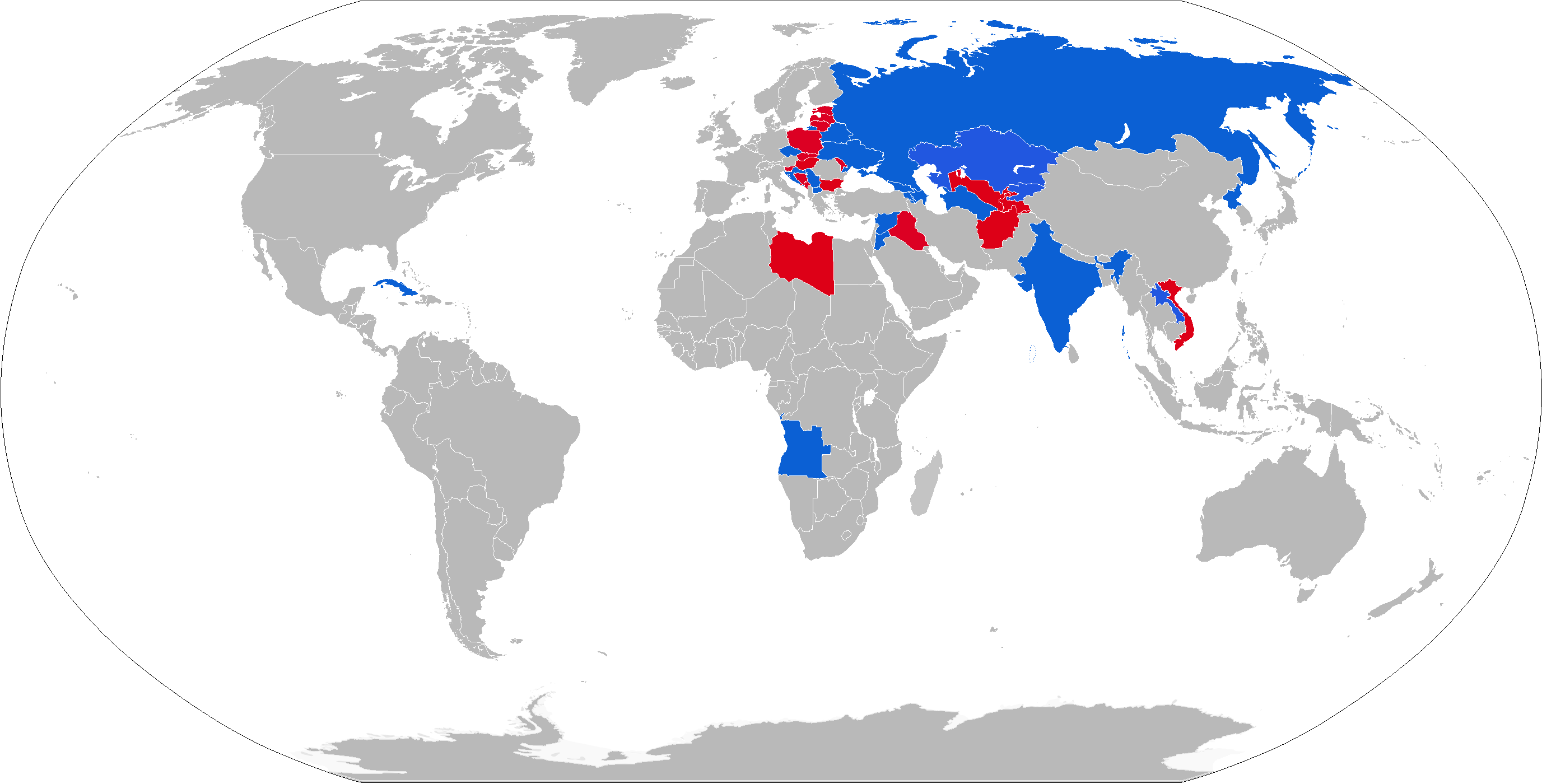 Map of 9K35 operators in blue with former operators in red